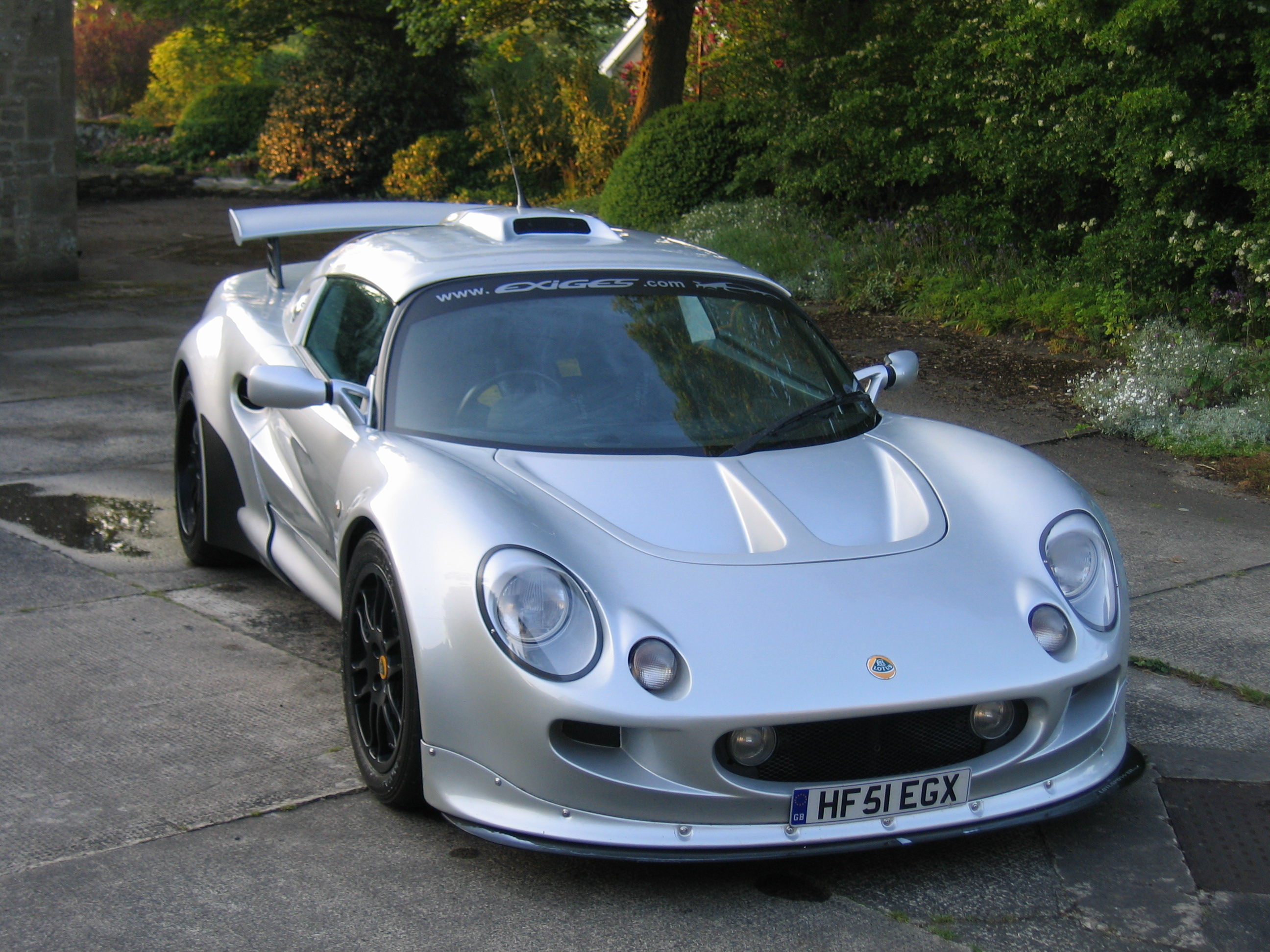 This silver colour never really did it for me although it looks good in the pictures. I would really have preferred Chrome Orange.